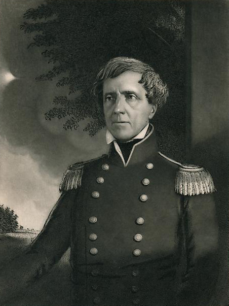 Portrait of Major-General Stephen Watts Kearny, accompanying a biography by Fayette Robinson